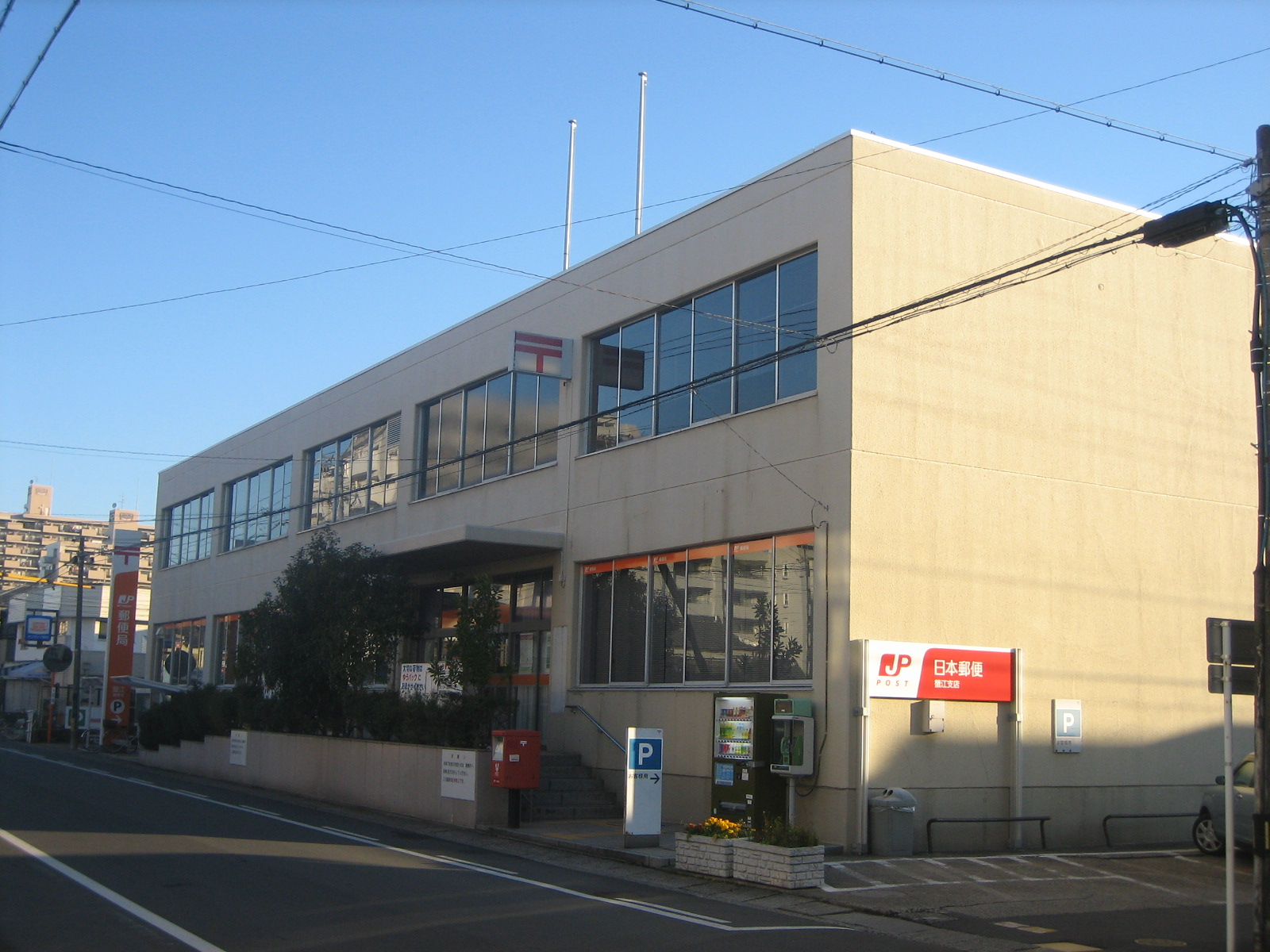 Kanie post office in Aichi, Japan